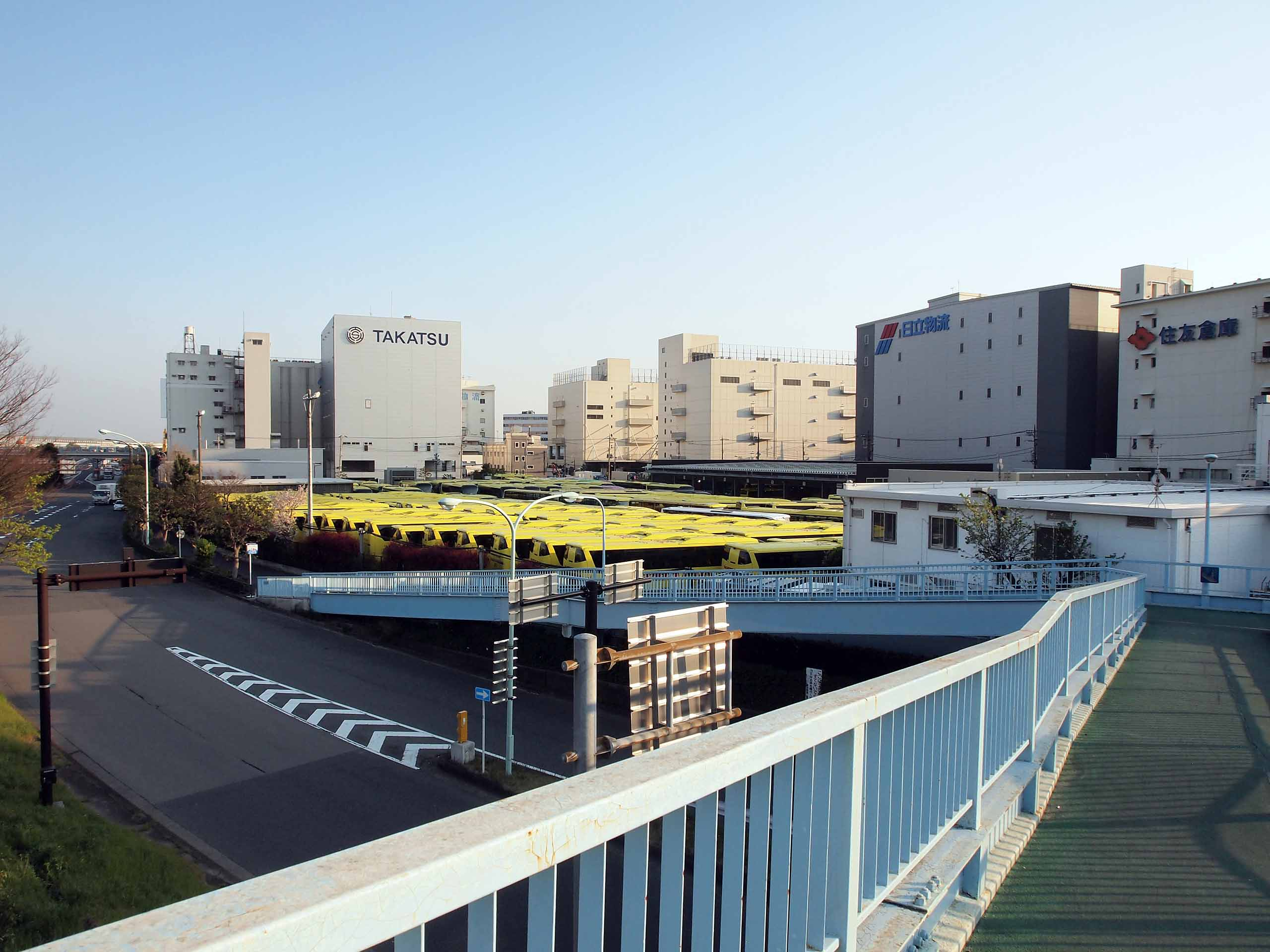 Hato Bus Head Office and Tokyo Dept from Footbridge, buses staying for COVID-19.